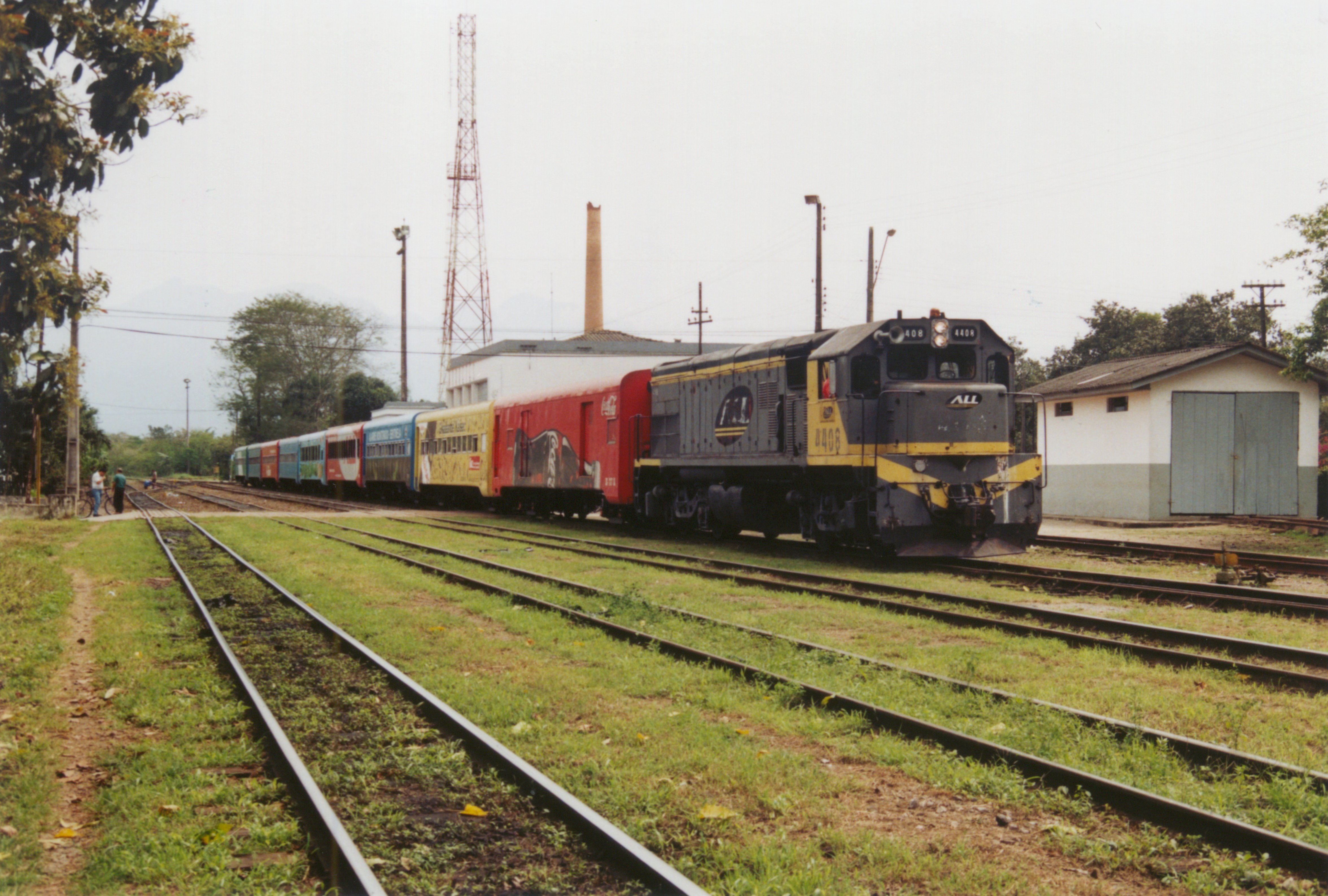 Serra Verde Express at Morretes train station (year 2002)